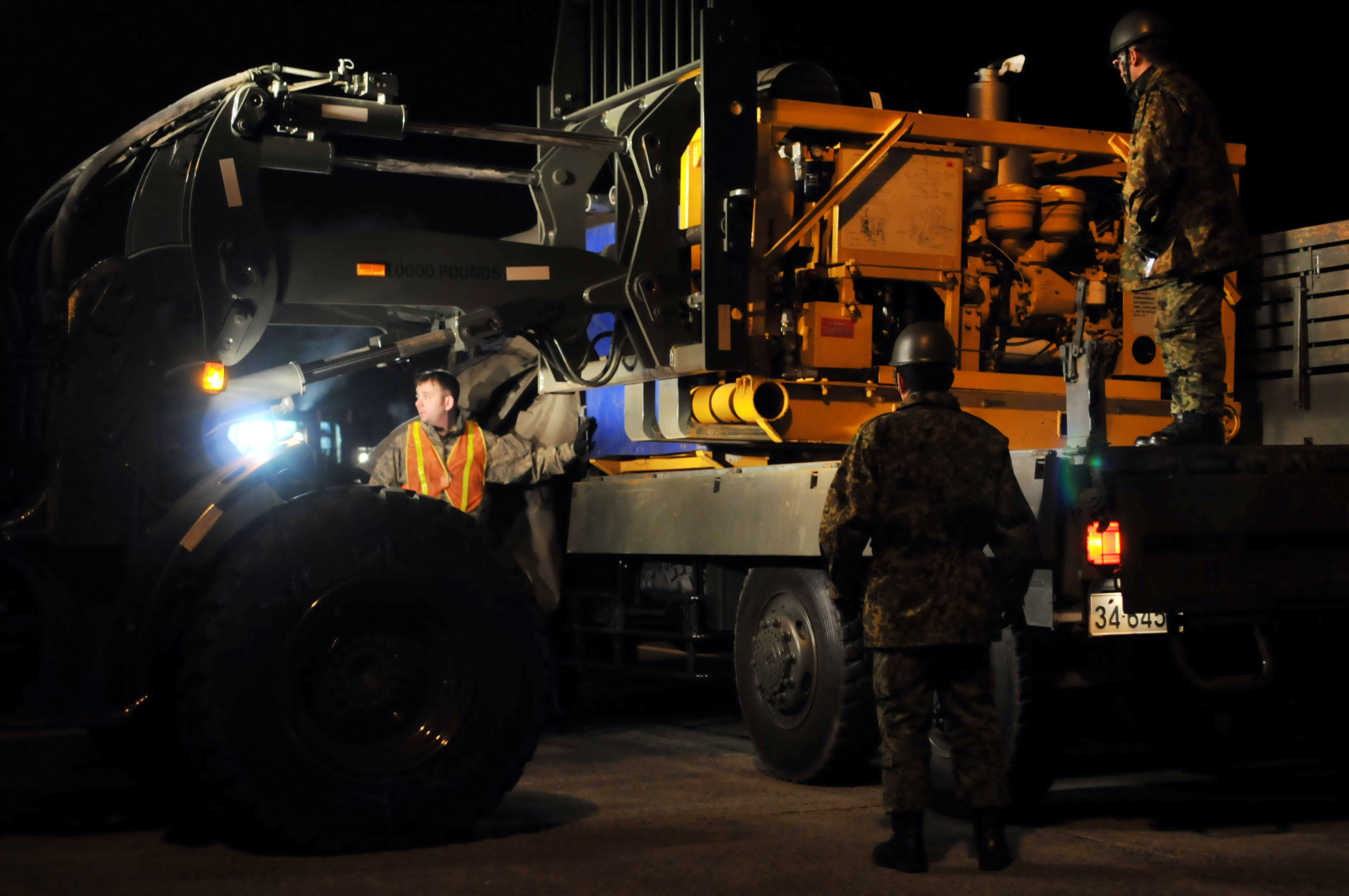 YOKOTA AIR BASE, Japan (March 17, 2011) U.S. Air Force Airmen and members of the Japan Ground Self-Defense force load high-capacity pumps provided by the U.S. Navy onto a truck. The five pumps will be used by Japan's Electrical and Mechanical Engineering Group Nuclear Asset Management Department to assist in the effort to cool the core of the damaged No. 3 reactor at the Fukushima Dai-Ichi nuclear power plant. (U.S. Air Force photo by Airman 1st Class Andrea Salazar/Released)